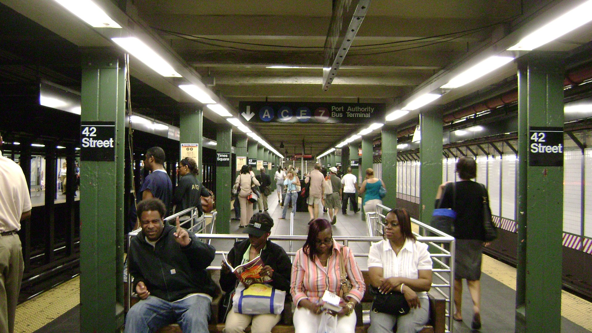 The southbound Seventh Avenue Line platform at Times Square-42nd Street